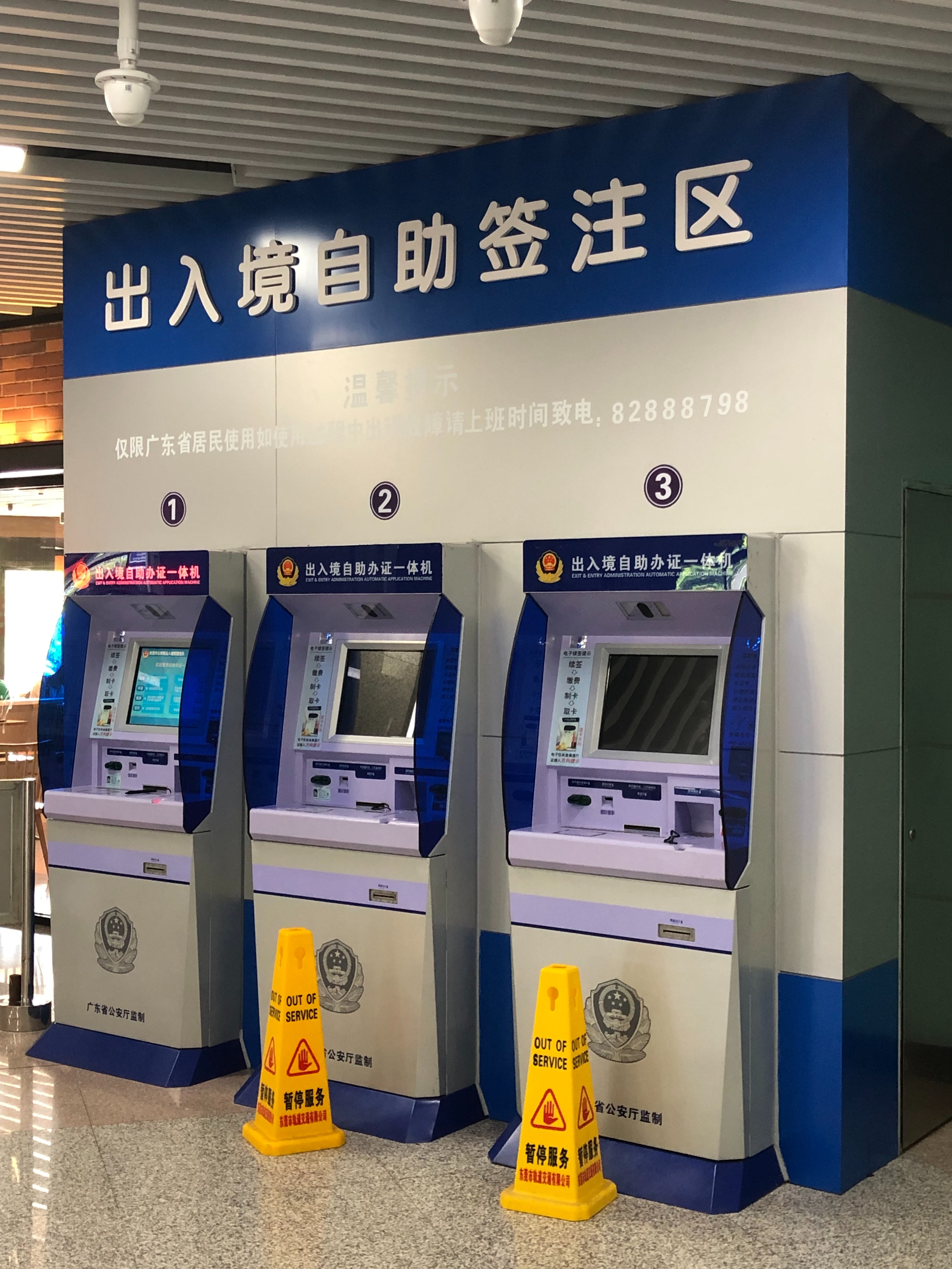 东莞市, 中国, July 2019